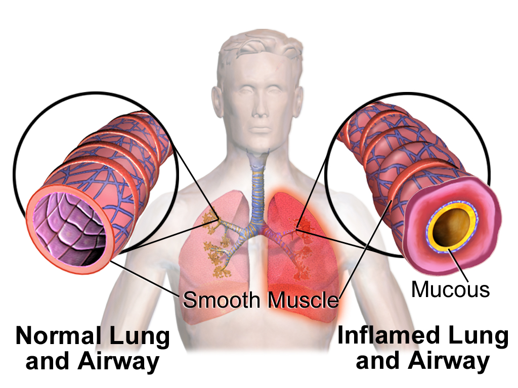 Asthma. See a full animation of this medical topic